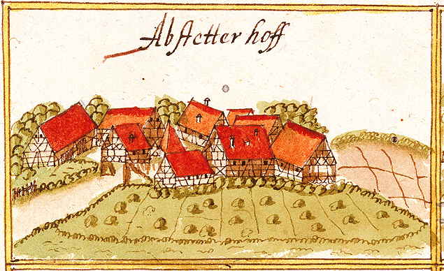 View of Abstetter Hof, Auenstein, Ilsfeld, from the forest register books created by Andreas Kieser